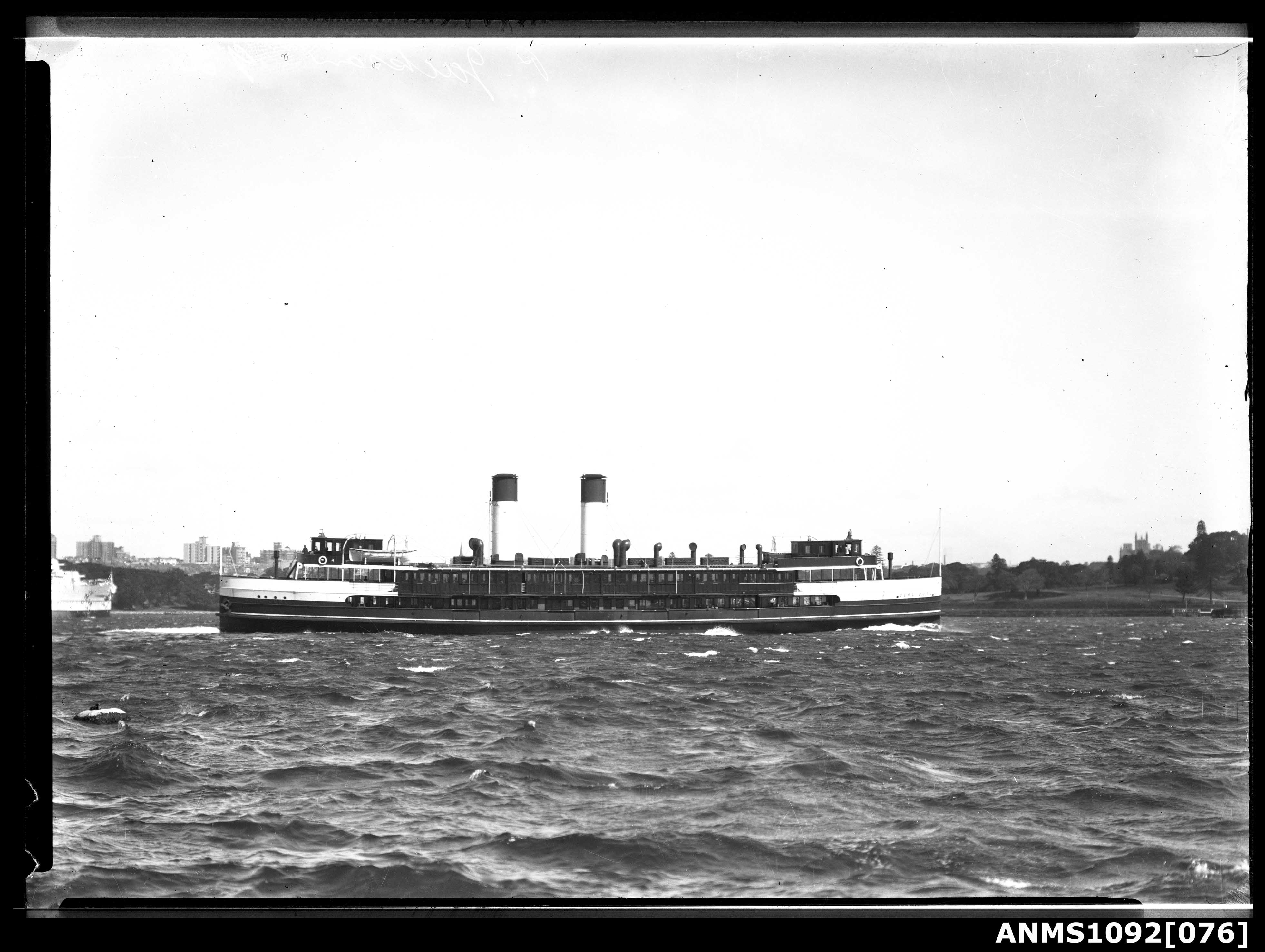 This photo is part of the Australian National Maritime Museum’s William J Hall collection. The Hall collection provides an important pictorial record of recreational boating in Sydney Harbour, from the 1890s to the 1930s – from large racing and cruising yachts, to the many and varied skiffs jostling on the harbour, to the new phenomenon of motor boating in the early twentieth century. The collection also includes images of the many spectators and crowds who followed the sailing races. The ANMM undertakes research and accepts public comments that enhance the information we hold about images in our collection. This record has been updated accordingly. Object no. ANMS1092[076]